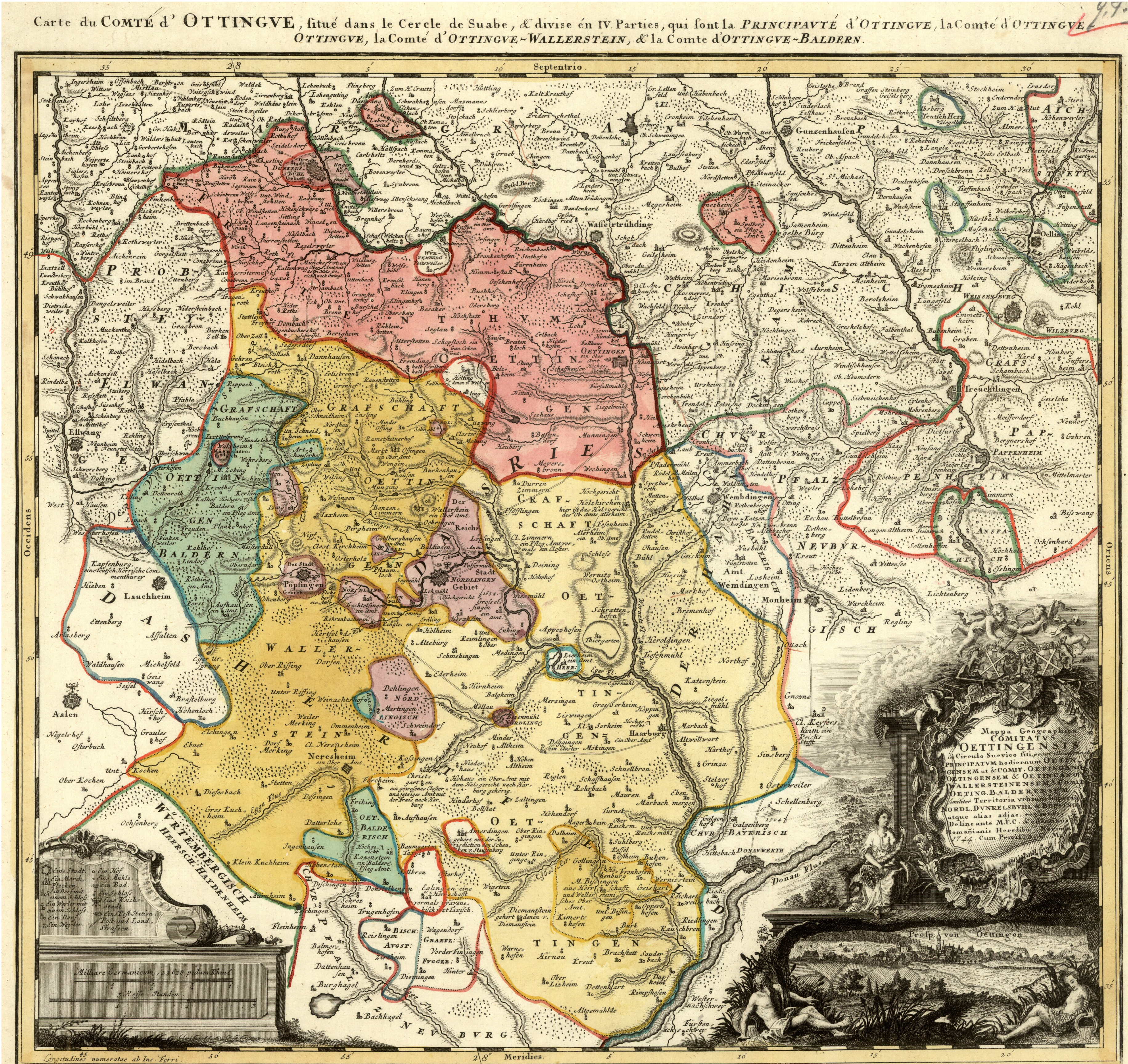 Map showing the territories of the House of Oettingen in the mid-18th century: the Principality of Oettingen (or Oettingen-Spielberg, in pink) and the Counties of Oettingen-Oettingen (light yellow), Oettingen-Baldern (aqua) and Oettingen-Wallerstein (yellow). Also shown (in purple) are the territories of the free imperial cities of Nördlingen (with its half-dozen exclaves), Bopfingen and Dinkelsbühl. The map, which contains information in Latin, French and German, was designed by M. F. Cnopf and published by Homann Erben (Homann Heirs) in 1744.